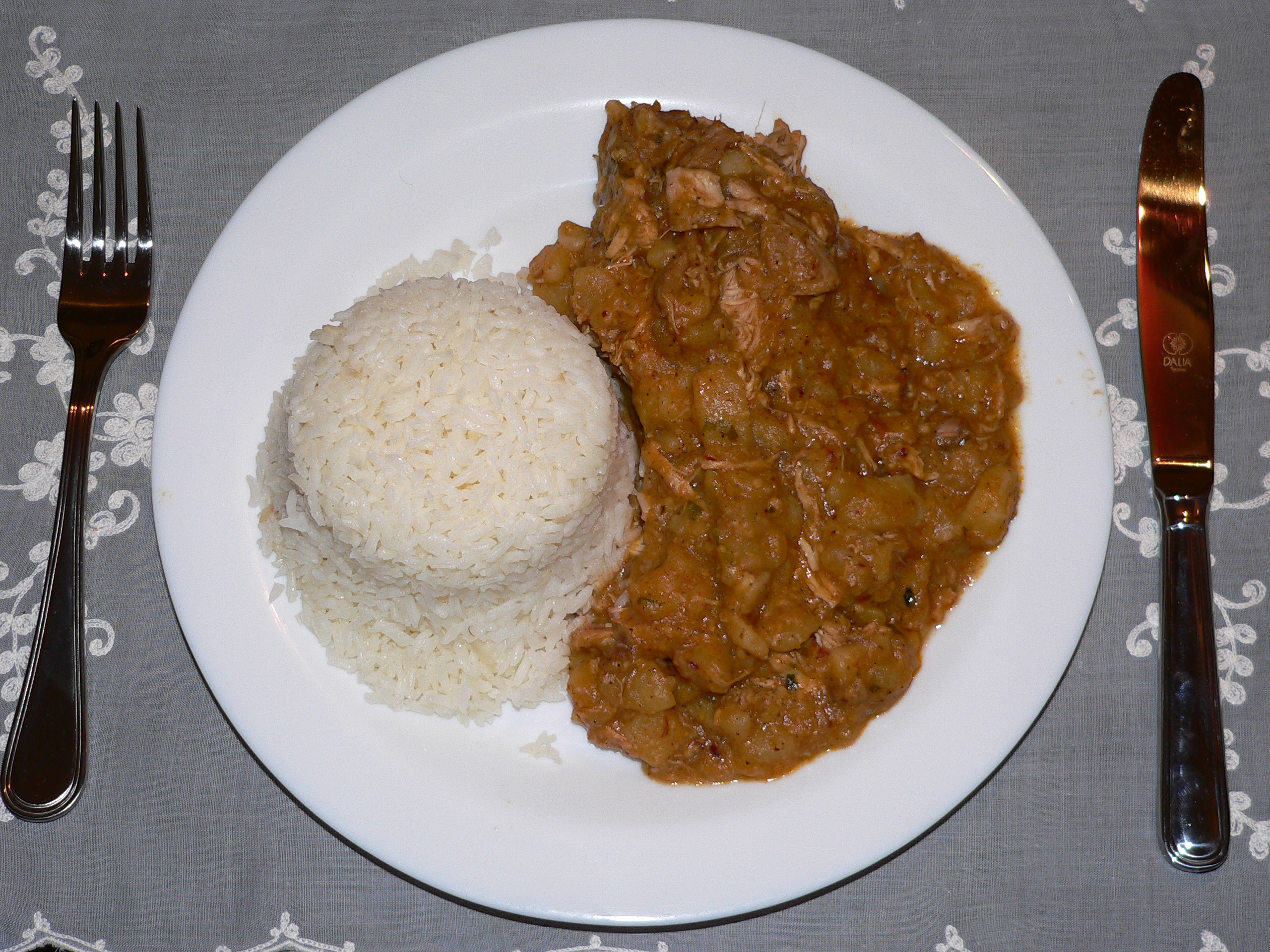 Description: Peruvian cuisine Name: Carapulcra Country : Peru Photographer: © Manuel González Olaechea y Franco Shot date : November, 11th , 2007